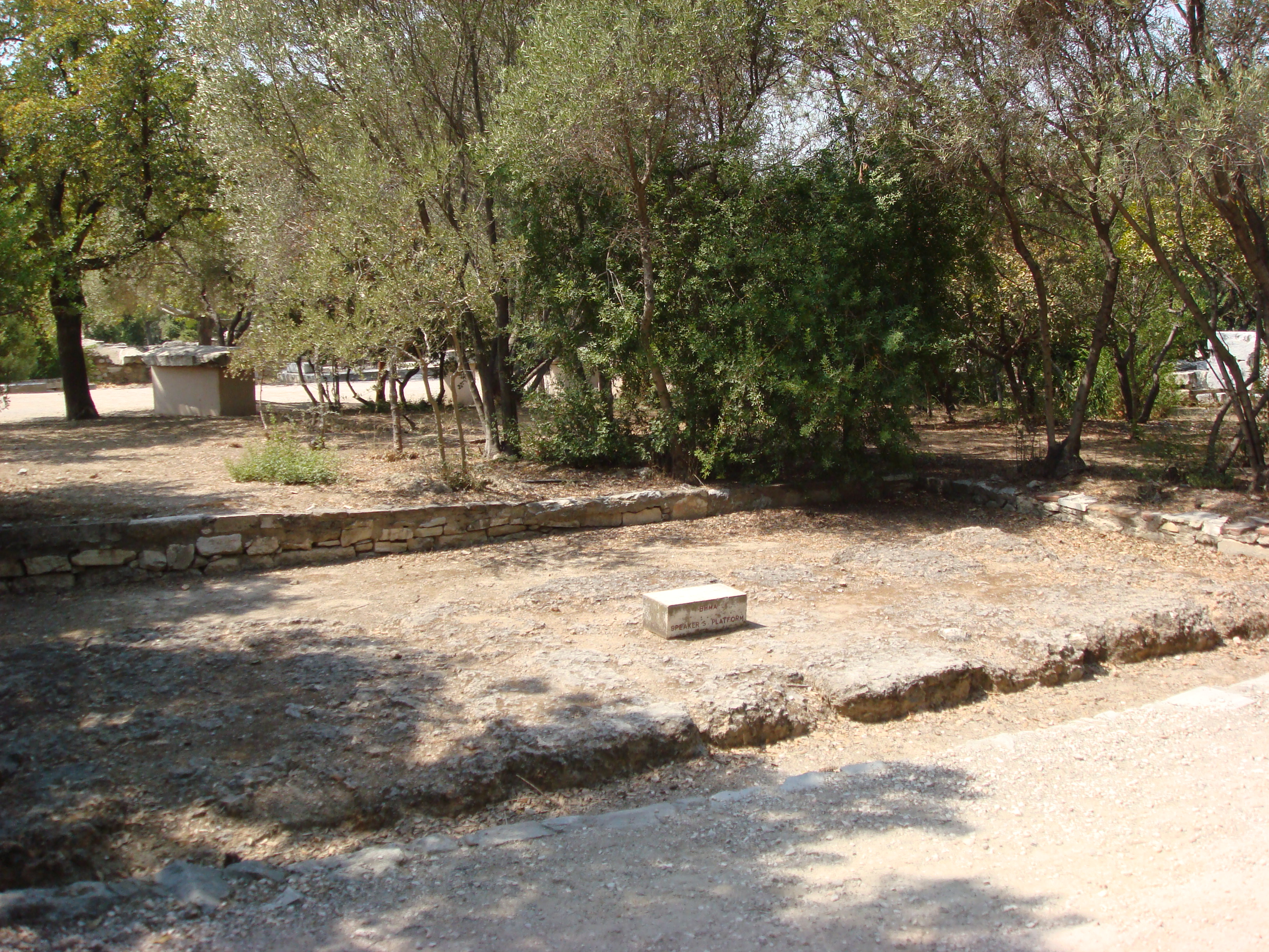 Speaker's platform in the Ancient Agora of Athens.